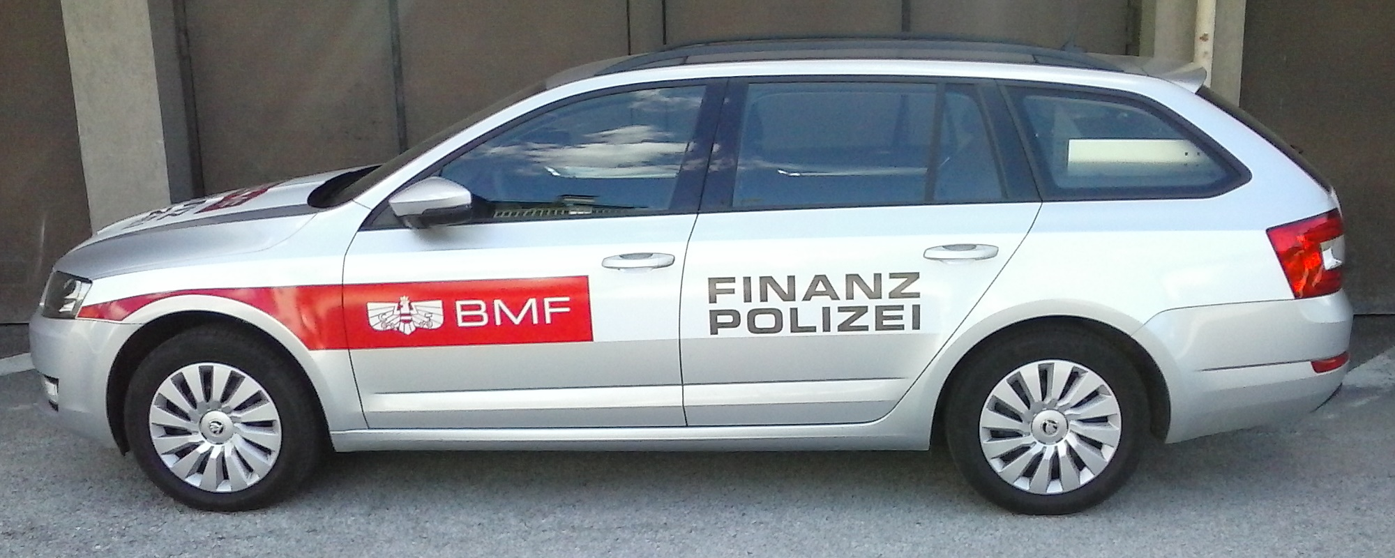 Car of the Financial Police of Austria